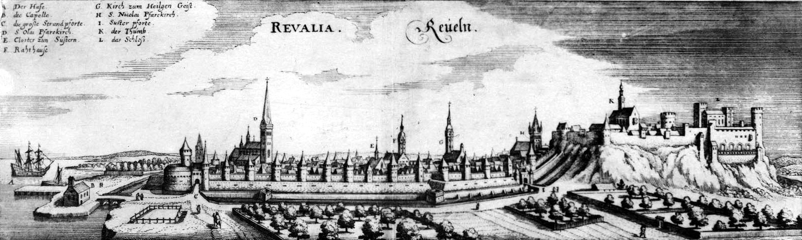 View of Tallinn from 17th century. Engraving by Adam Olearius.